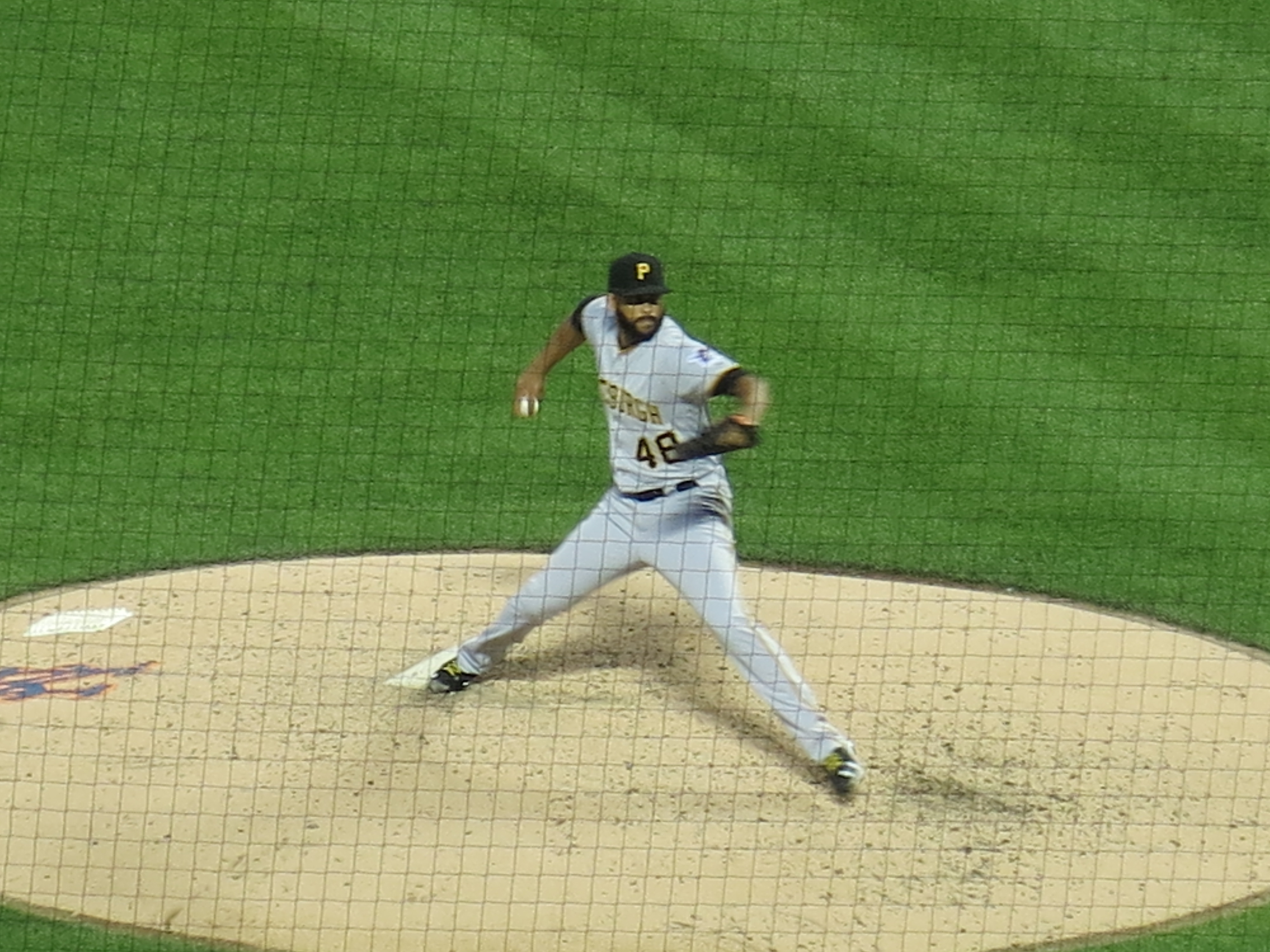 Richard Rodríguez on June 26, 2018